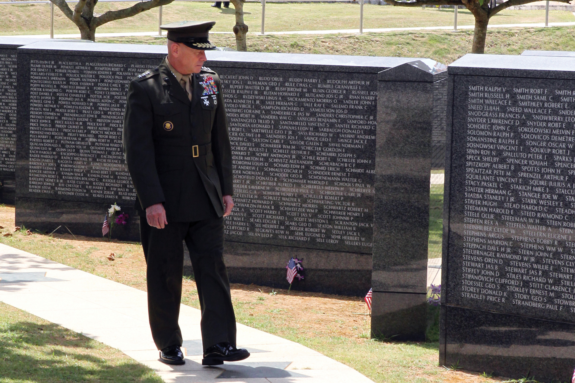 Lt. Gen. Kenneth J. Glueck Jr., commanding general of III Marine Expeditionary Force and commander of Marine Corps Bases Japan, looks at names on the Cornerstone of Peace at Okinawa Peace Memorial Park in Itoman City, during the 2011 Okinawa Memorial Service for All War Dead June 23.